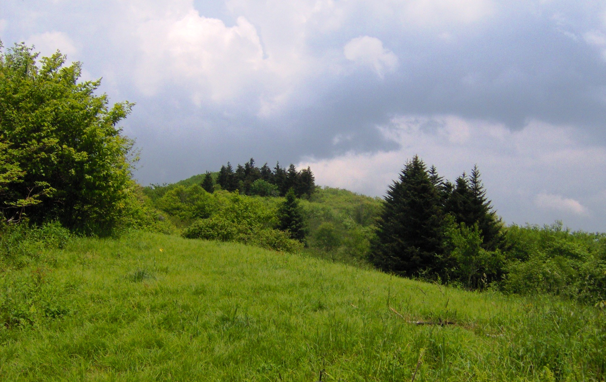 Stratton Bald (el. 5360ft/1634m), viewed from its grassy bald area atop its subpeak, Bob Bald, in the Unicoi Mountains of the southeastern United States. The mountain is named after Robert "Bob" Stratton (1825-1864), whose family lived atop the mountain in the 1850s and 1860s.